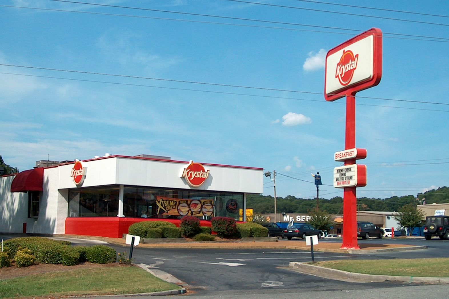 One of Krystal restaurants (in Calhoun) by Cculber007